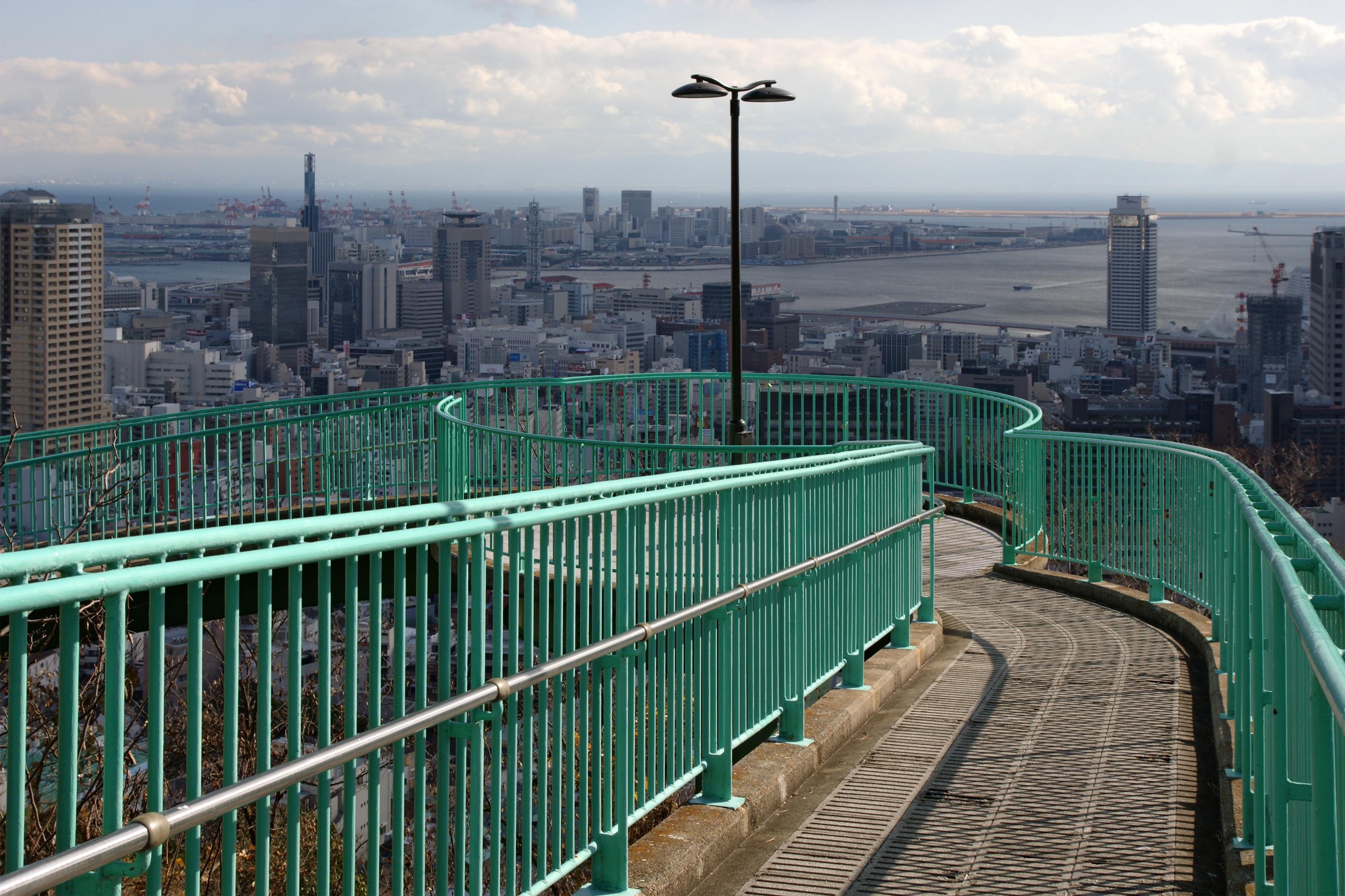 Venus Bridge in Kobe, Hyogo prefecture, Japan